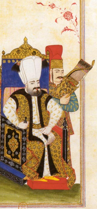 Sultan Suleiman II. Ottoman miniature painting, Detail from a family-tree: The Sultan's portrait. [exhibition held at the Topkapı Palace Museum in Istanbul, 6.6.-6.9. 2000]. Topkapı Sarayı Müzesi, Istanbul)